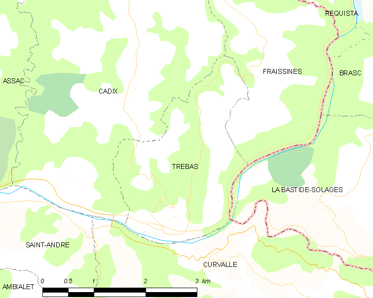 Map of French municipality Trébas